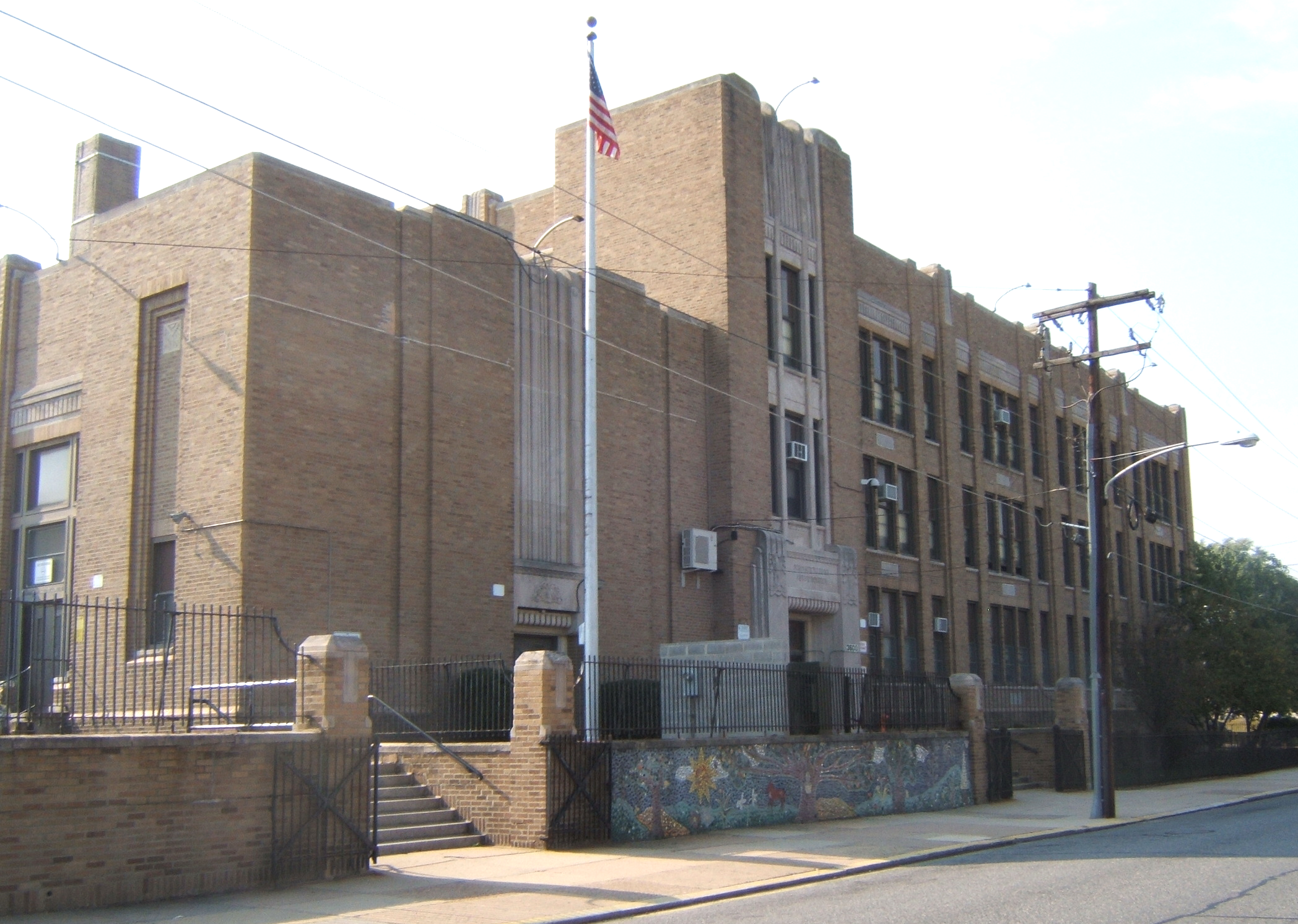 Joseph H. Brown Elementary School is an elementary school at 3600 Stanwood Street, Philadelphia, PA 19136 in the Holmesburg neighborhood of Northeast Philadelphia, ates, currently serving students from kindergarten to sixth grade. The current school building was constructed in 1937, replacing an earlier building on the same site. It was designed by Irwin T. Catharine, then the Philadelphia School District's main architect, and is an exemplar of the Art Deco and Moderne schools of architecture.